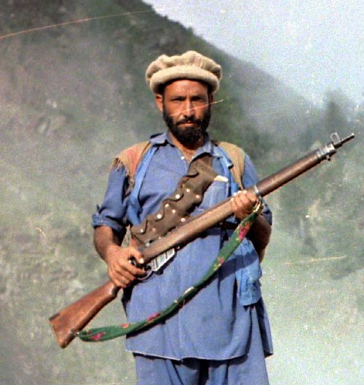 Mujahideen in Kunar, Afghanistan, holding an old, long barreled Lee-Enfield rifle.